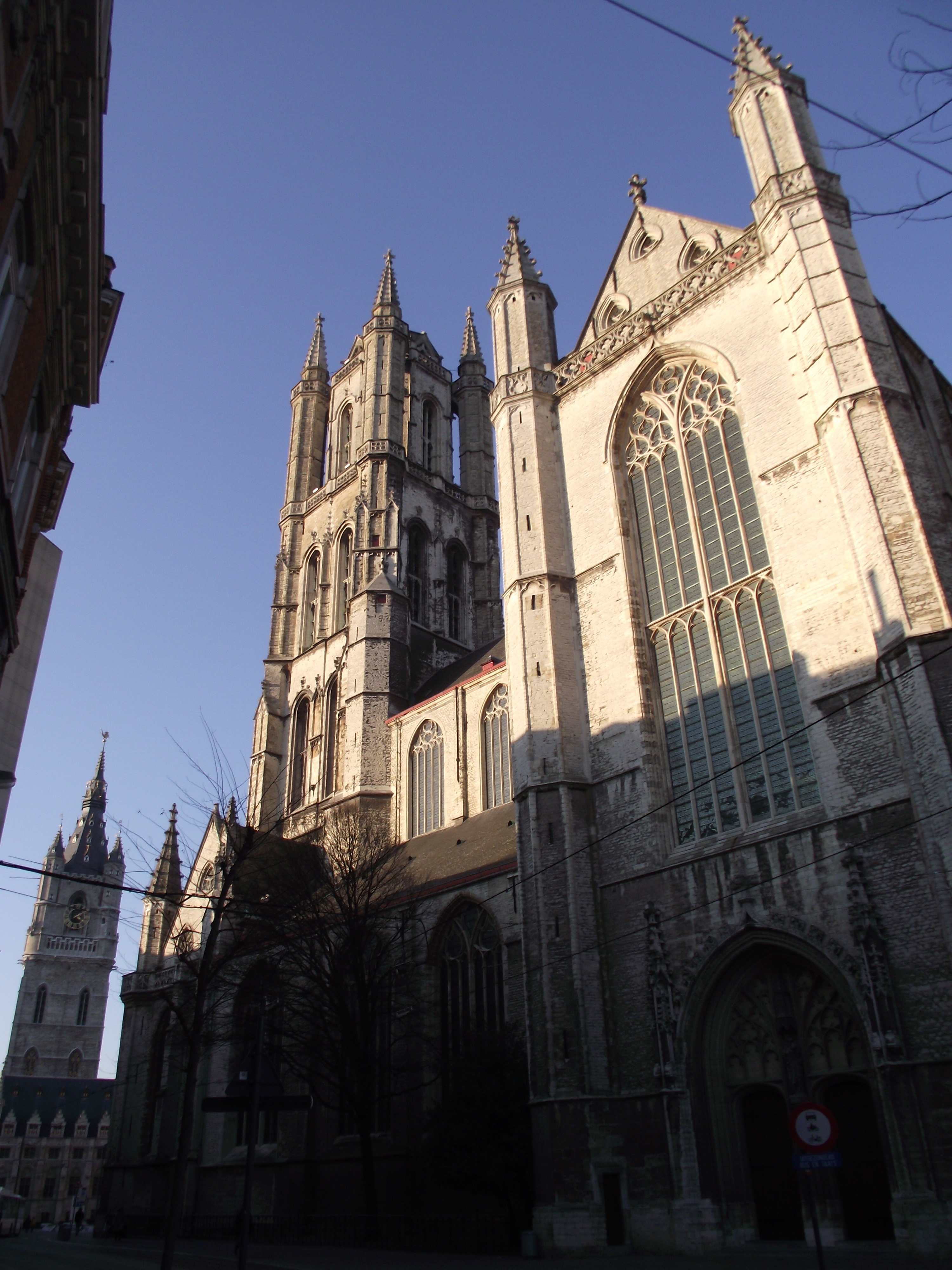 Ghent, Saint Bavo's Cathedral, 1228-1462